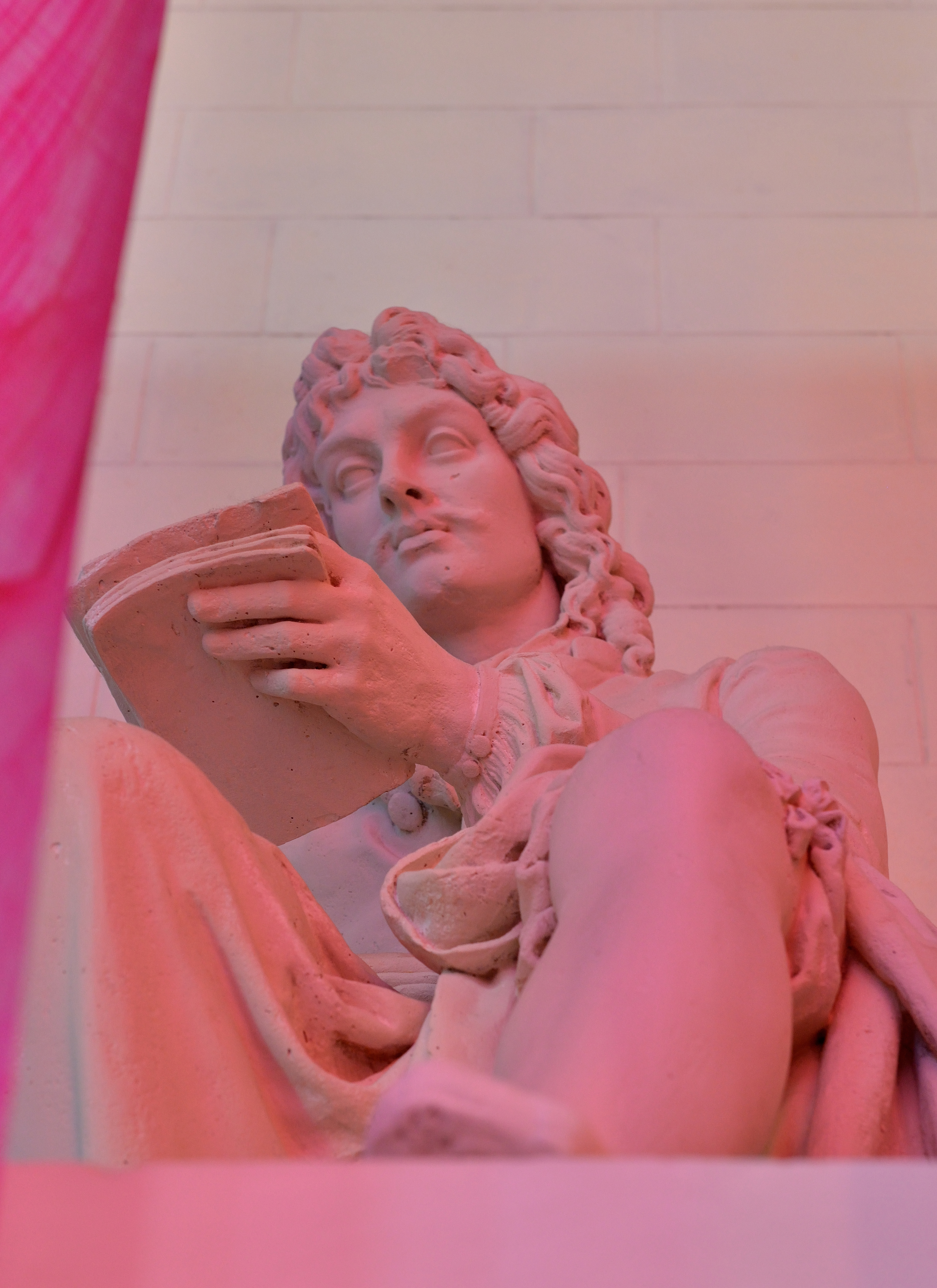 Statue of Molière by Johann Dominik Mahlknecht 1829 inside the Théâtre Graslin in Nantes, France.